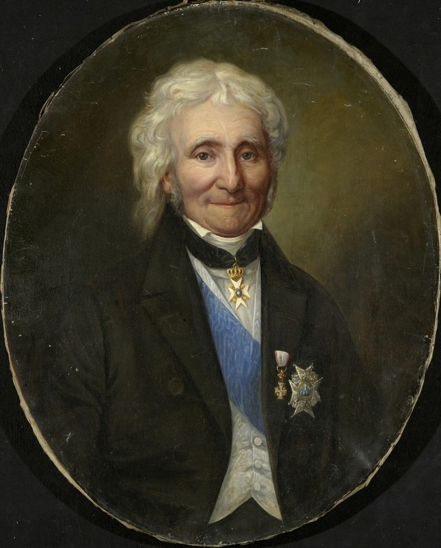 Jonas Collett. Painting by unknown artist, copy after Johan Gørbitz.